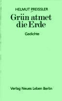 Book cover of Helmut Preißler "Grün atmet die Erde"